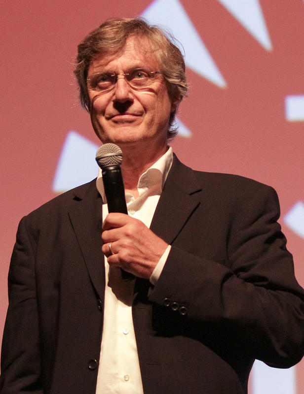 MIFF Career Achievement Tribute: Lasse Hallström, followed by THE HYPNOTIST at Olympia Theater at Gusman Center for the Performing Arts on March 3, 2013